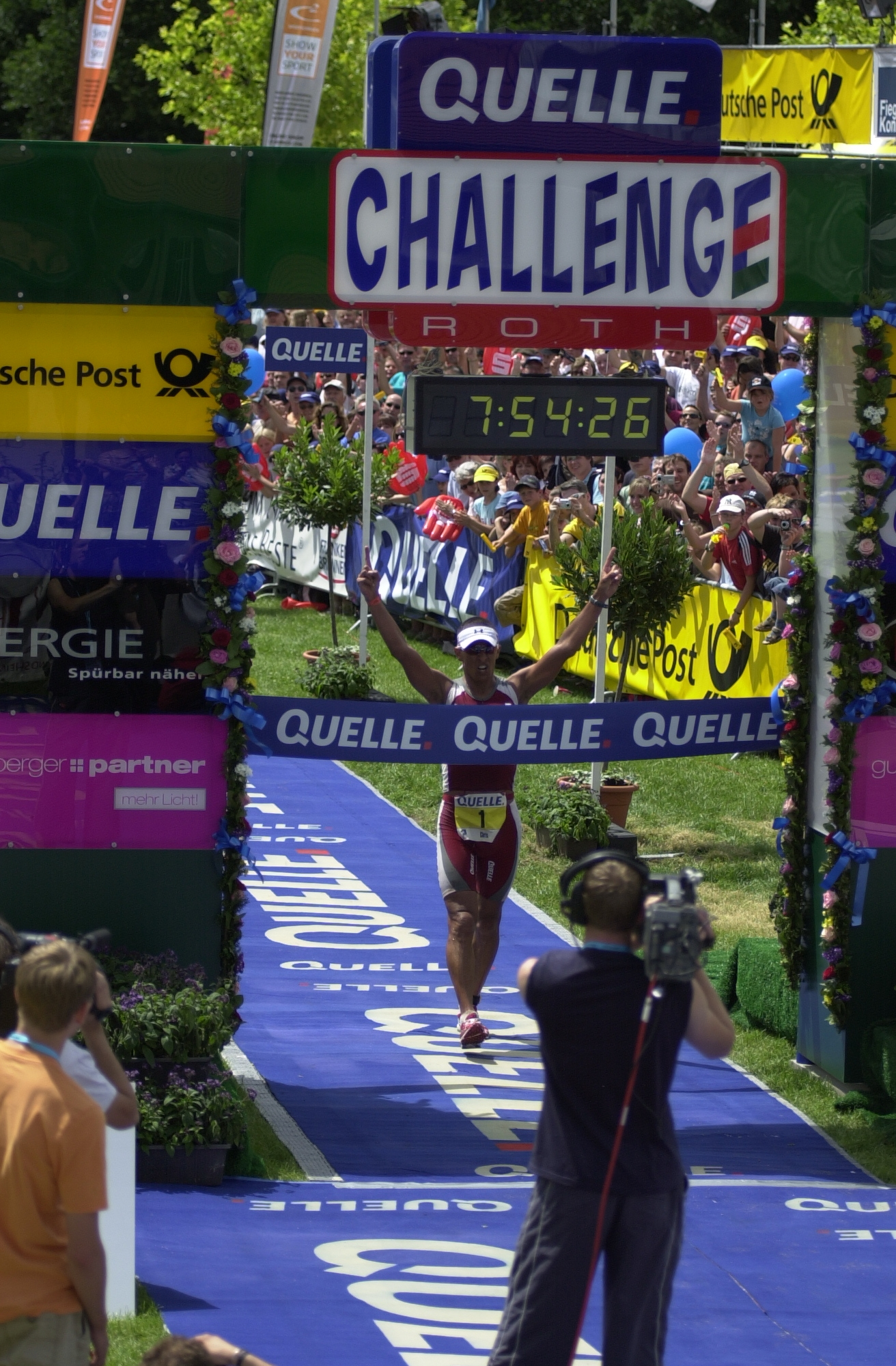 Chris McCormack wins 2007 Challenge Roth